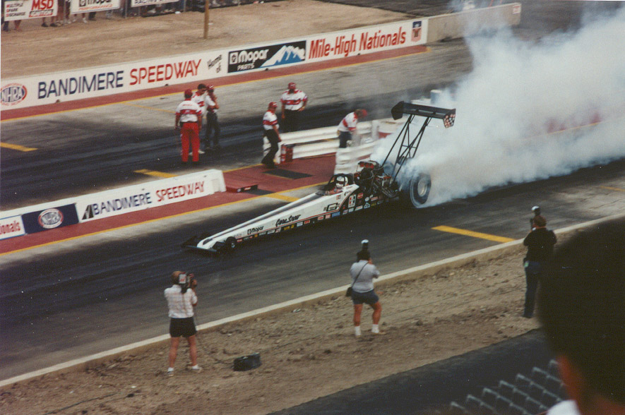 NHRA driver Gene Snow Top Fuel dragster from around 1990.Gene Snow